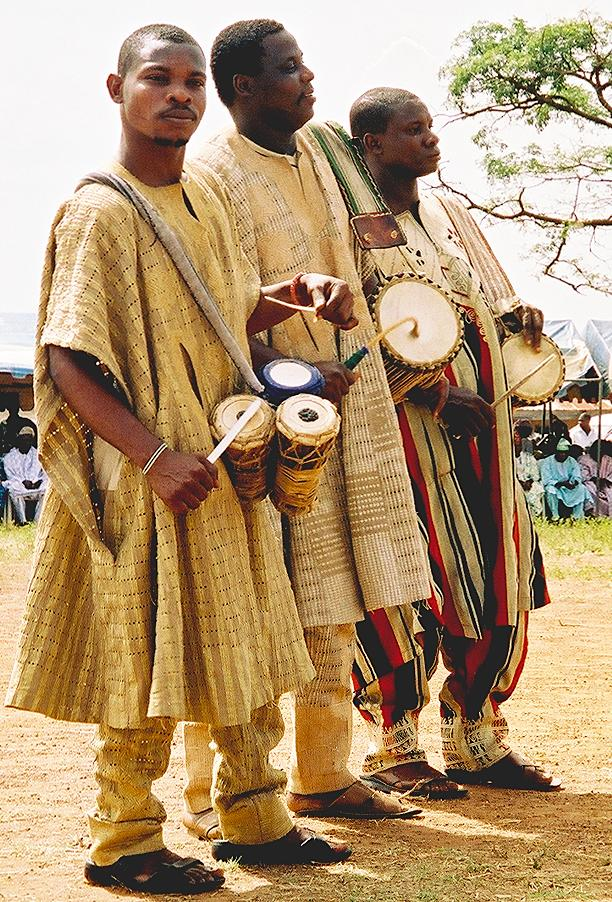 These drummers were part of a large celebration marking the arrival of running water to their village, Ijomu Oro, Kwara State, Nigeria, in April 2004